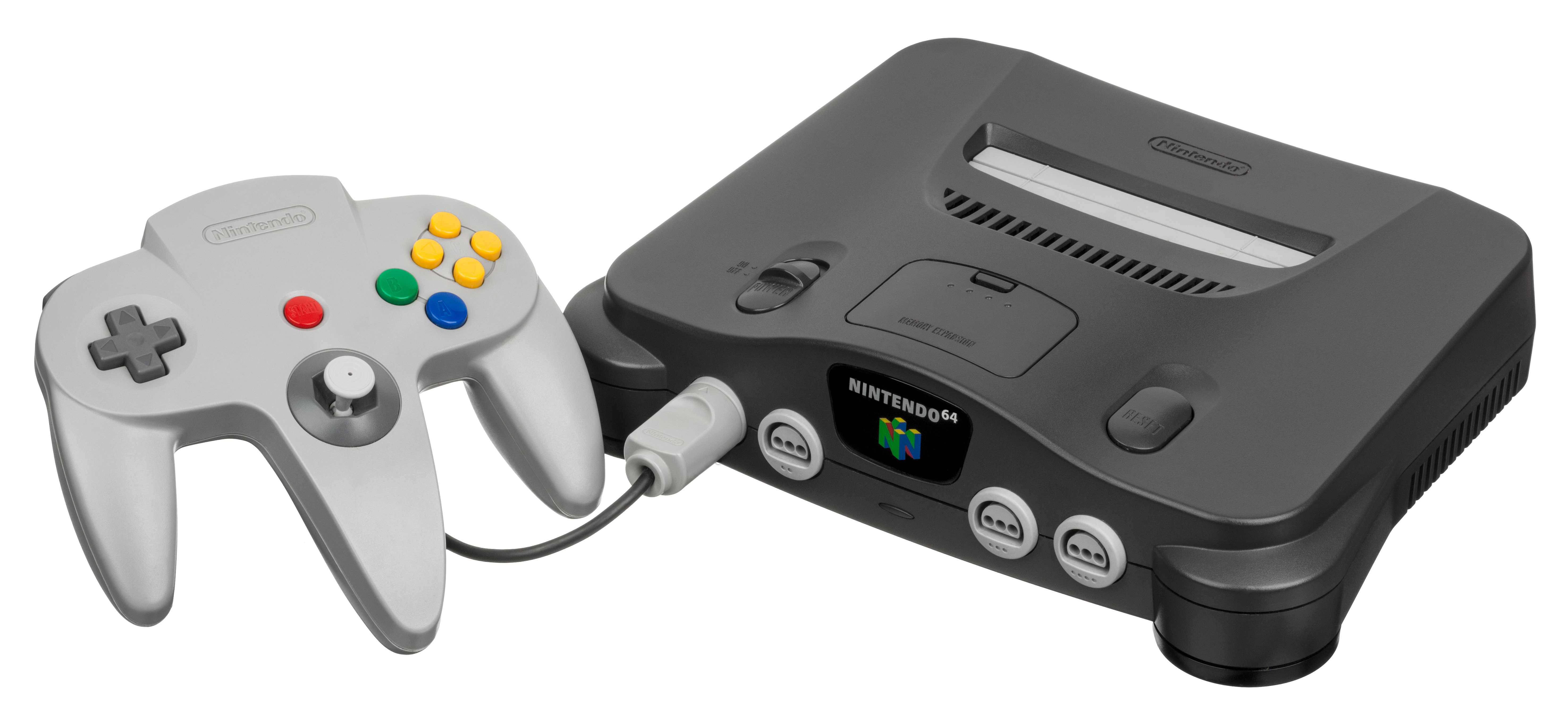 The Nintendo 64, a fifth generation gaming console released by Nintendo in 1996, over a year later than its rivals the Sega Saturn and Sony PlayStation. It was the most powerful of the fifth generation systems, but was severely hindered by some design challenges and its use of cartridge media. Those challenges and the launch delay caused many third party companies (who had worked with Nintendo on its previous system) to jump ship to the Sony PlayStation. The N64 sold over 30 million consoles in its lifetime, coming second to the PlayStation.